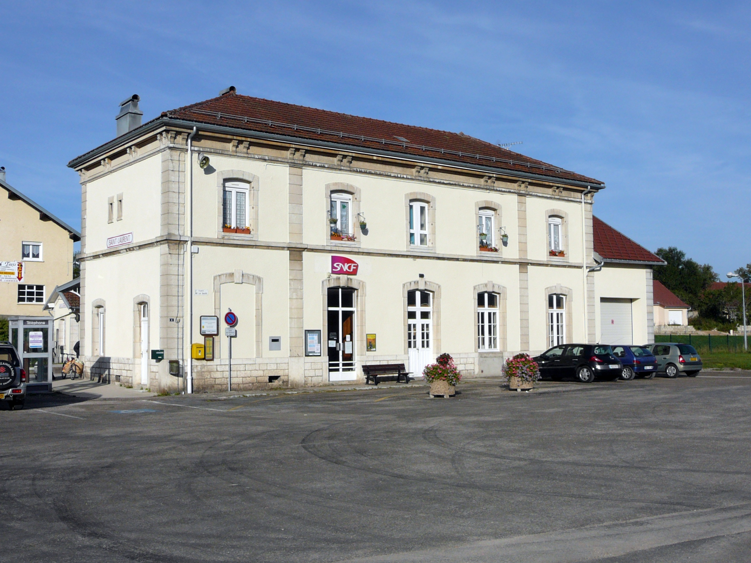 Saint-Laurent-en-Grandvaux's station